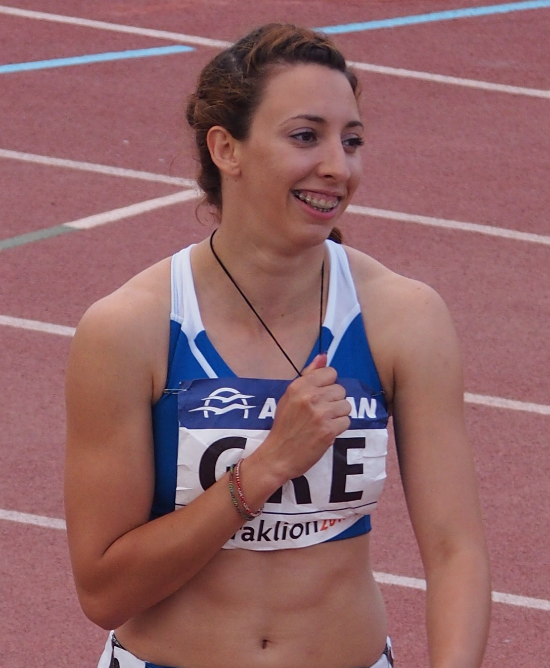 Maria Belibasaki, representing Greece in 2015 European Team Championship - First League, after finishing second in 200 m race.